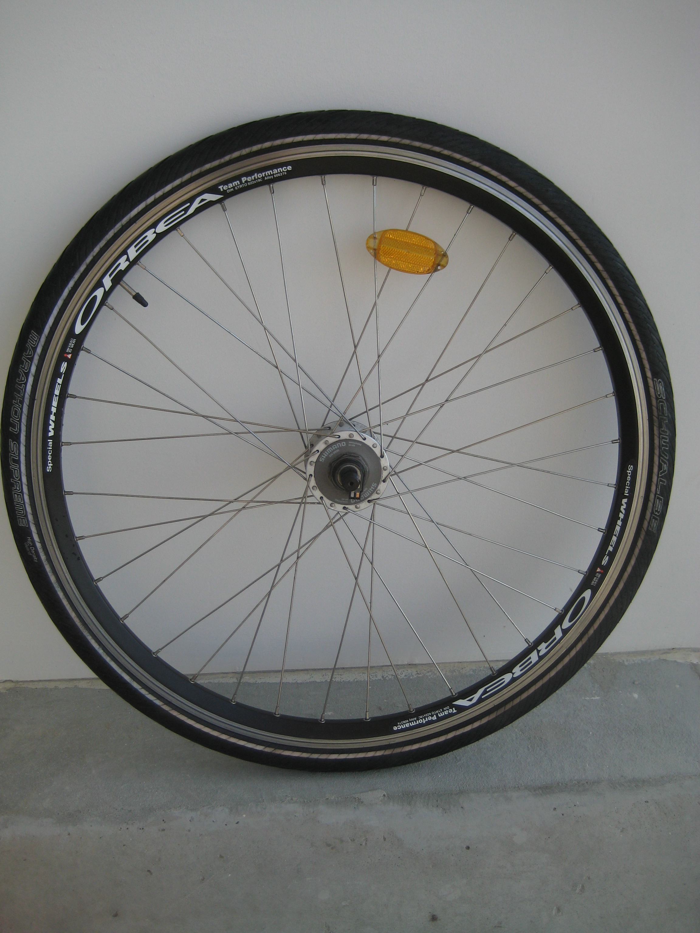 A trekking bike wheel with a dynamo hub